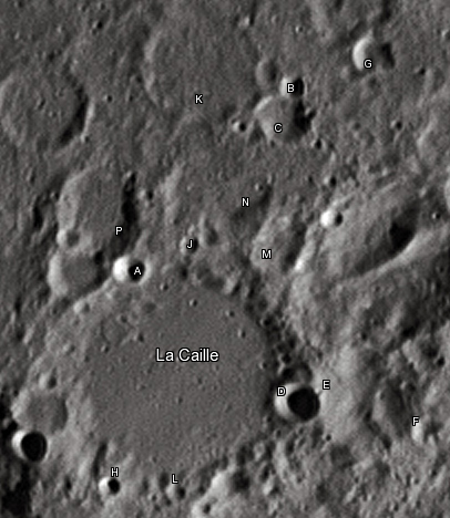 La Caille lunar crater as seen from Earth with satellite craters labeled